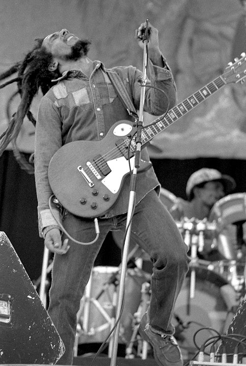 Bob Marley live in concert in Dalymount Park on 6 July 1980.